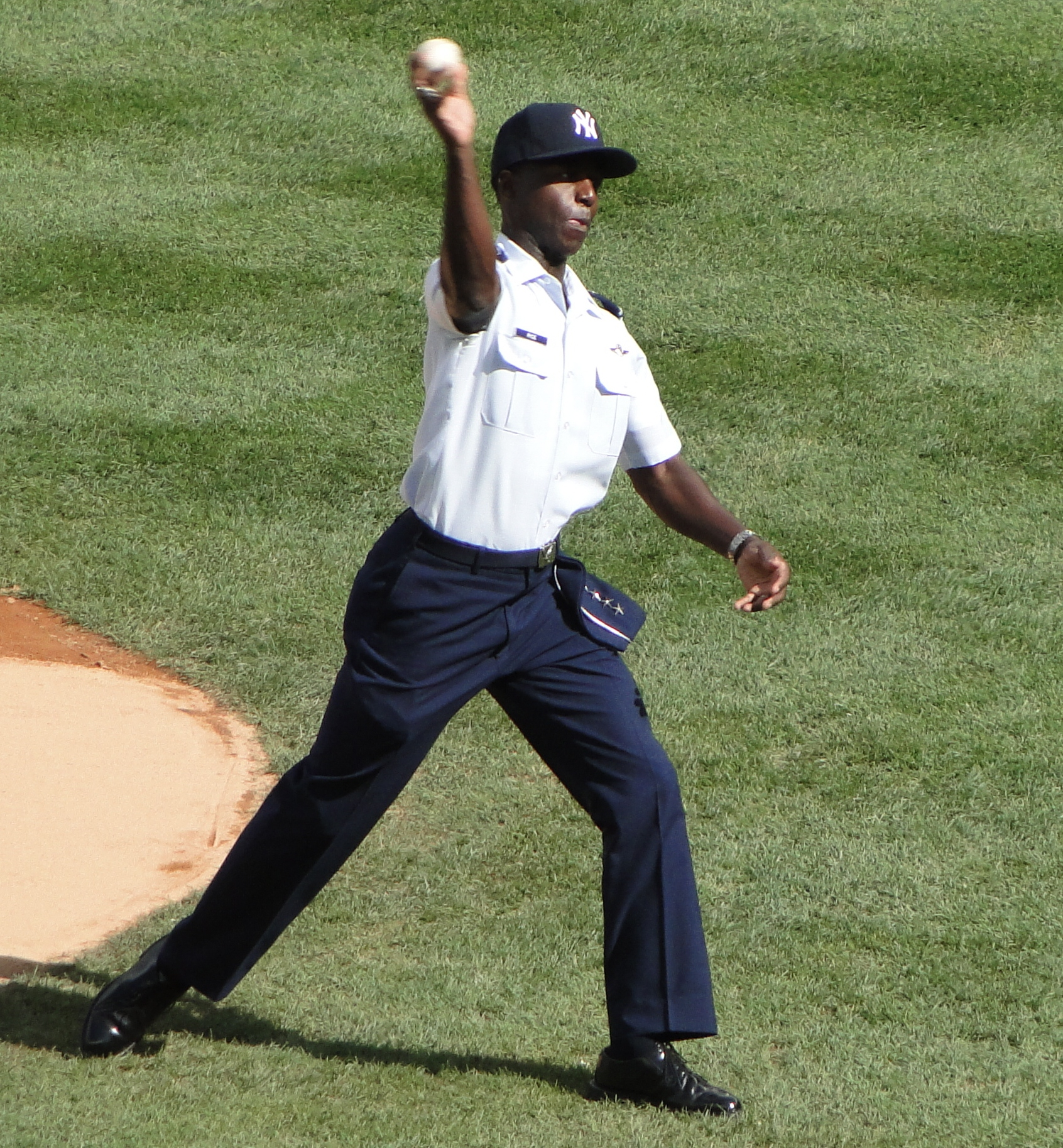 General Edward A. Rice, Jr. of the USAF throws out the first pitch at Yankee Stadium in Bronx, NY on August 18th, 2012.